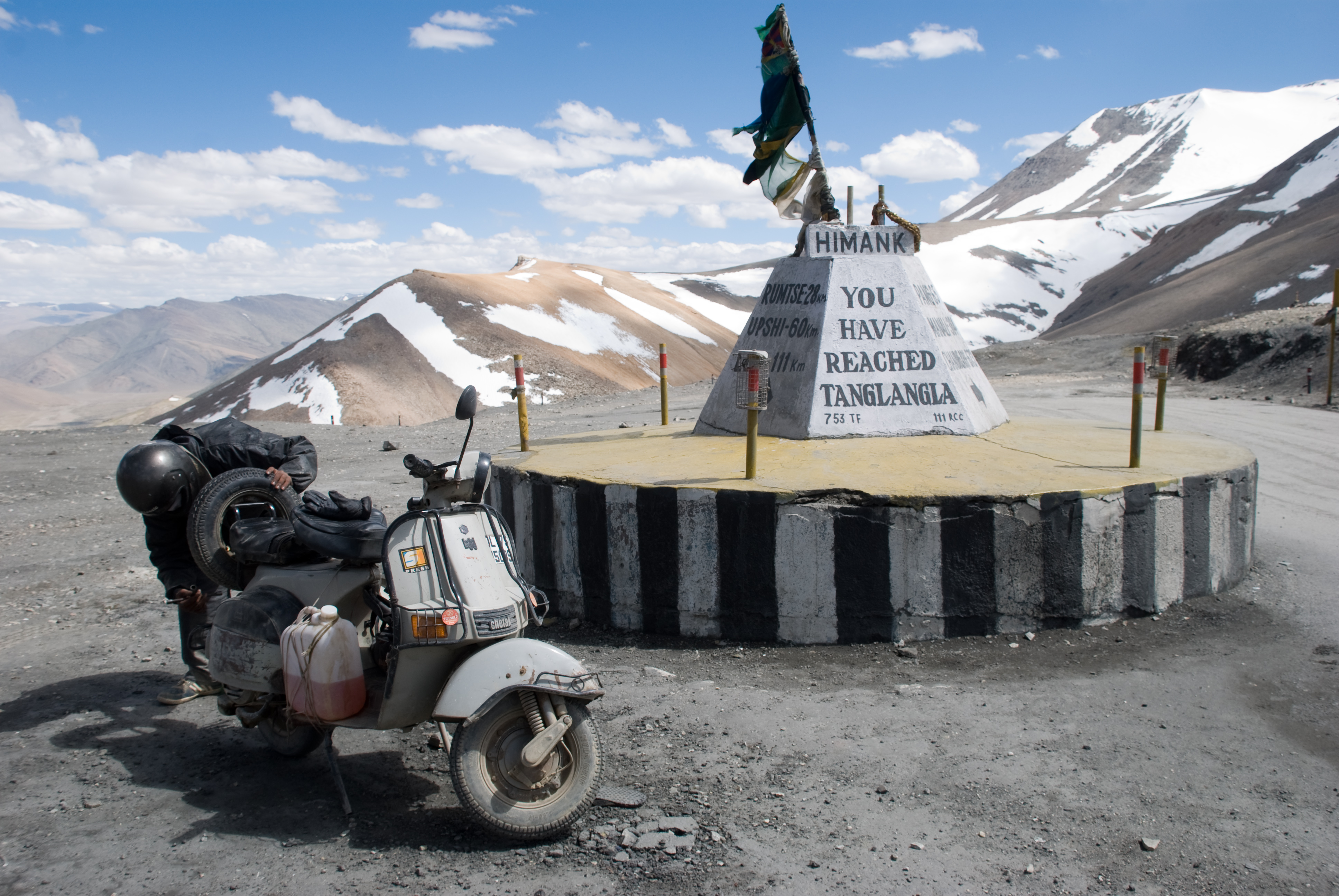 Bajaj Chetak scooter